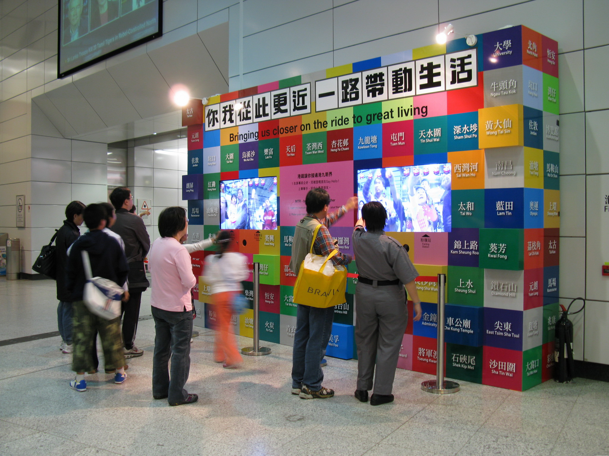 An interaction game was setup by MTR, to promote the benefits of Rail Merger. Photo was taken at Hong Kong Station.